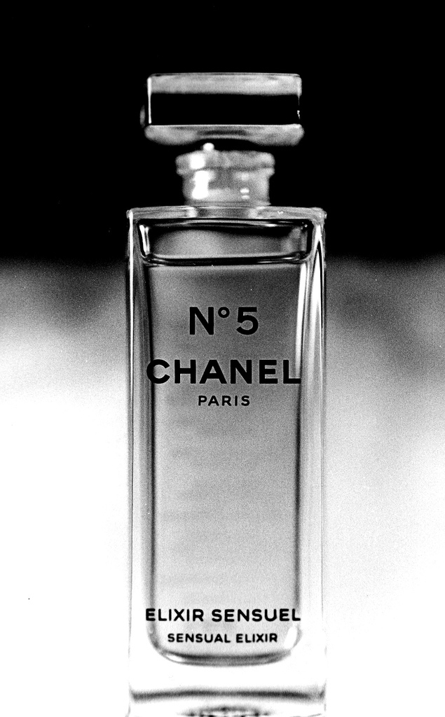 Photograph of Chanel N°5 Elixir Sensuel balanced on a shot glass. This photo was the result of a lighting test.